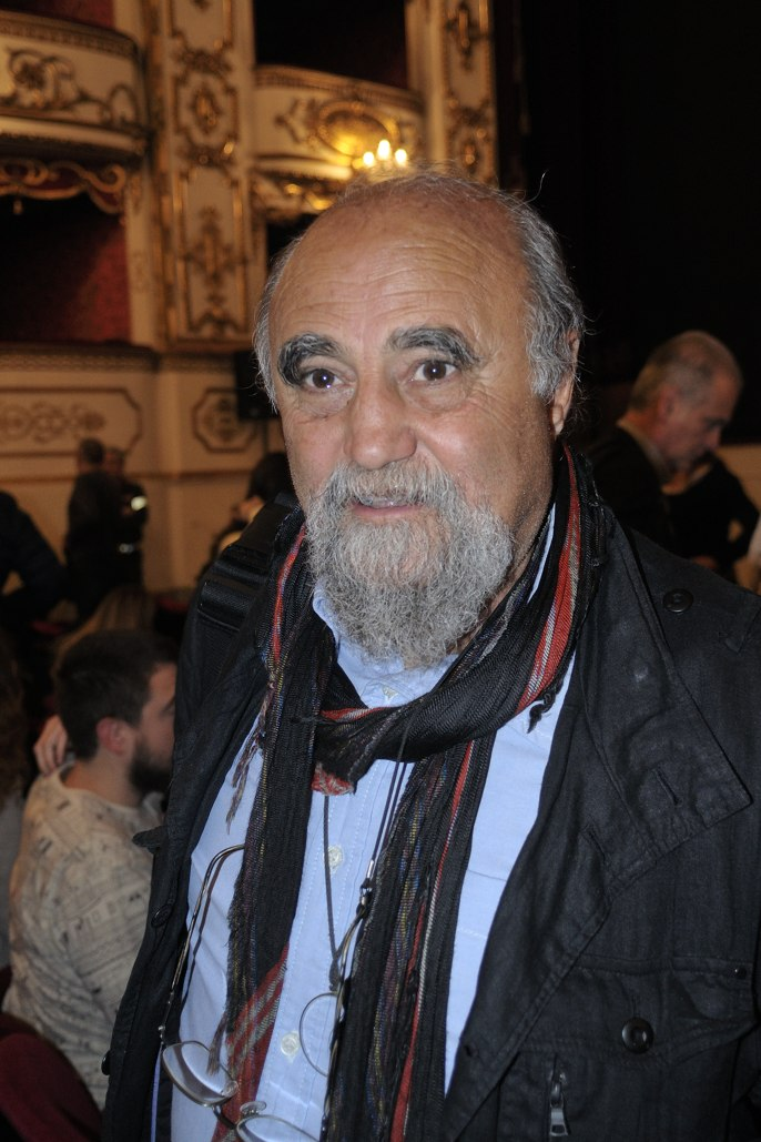 Reggio Emilia, Italy: Magnum Night at the Valli Theater